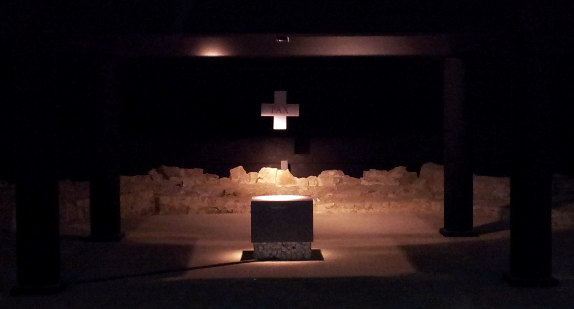 View of the ruined crypt of the demolished abbey church of the former Benedictine abbey at Sint-Truiden, Belgium.